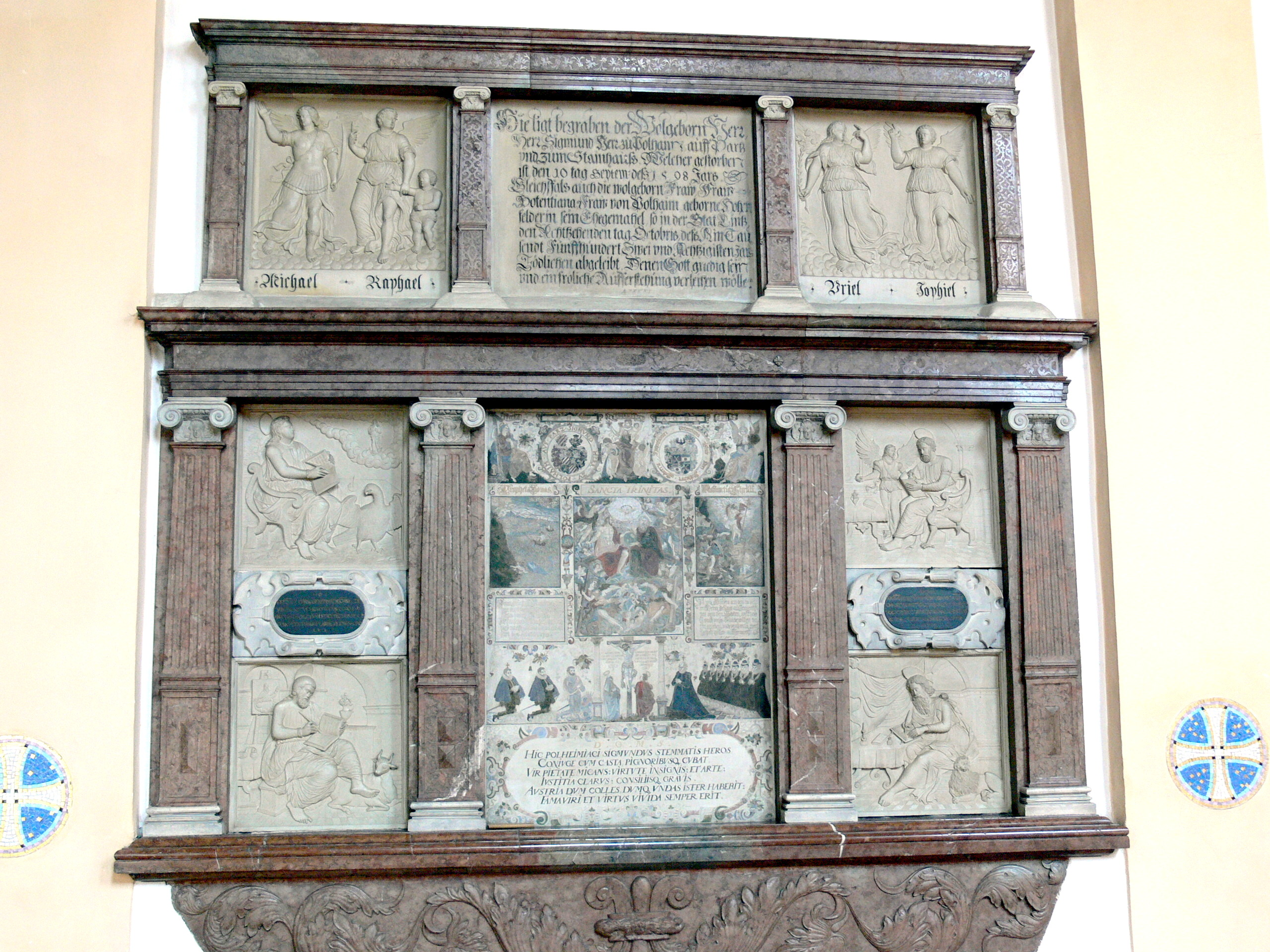 Grieskirchen - Saint Martin parish church: Epitaph for Sigmund of Polheim ( 1598 )